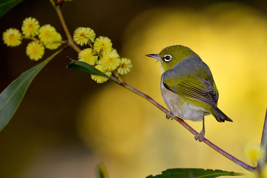 Another of the many birds enjoying the blossoms in our yard - Golden Wattle in this instance